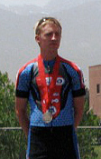 Chris Creveling won a silver metal in the 500 meters at the 2007 US Outdoor National Inline Speed Skating Championship (road events).